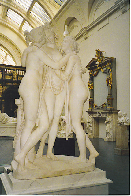 The Three Graces in the V&A Marble sculpture by Canova in London's major museum for fine and applied art, the Victoria and Albert.